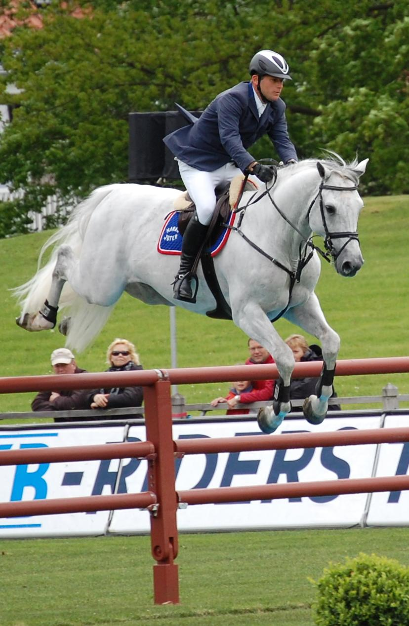 German rider Torben Köhlbrandt with C-Trenton Z, 1st qualifier to the 2012 German show jumping derby in Hamburg (CSI 3*).